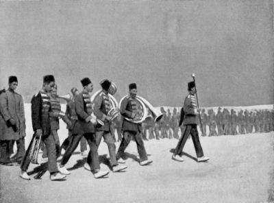 Persian Soldiers Band